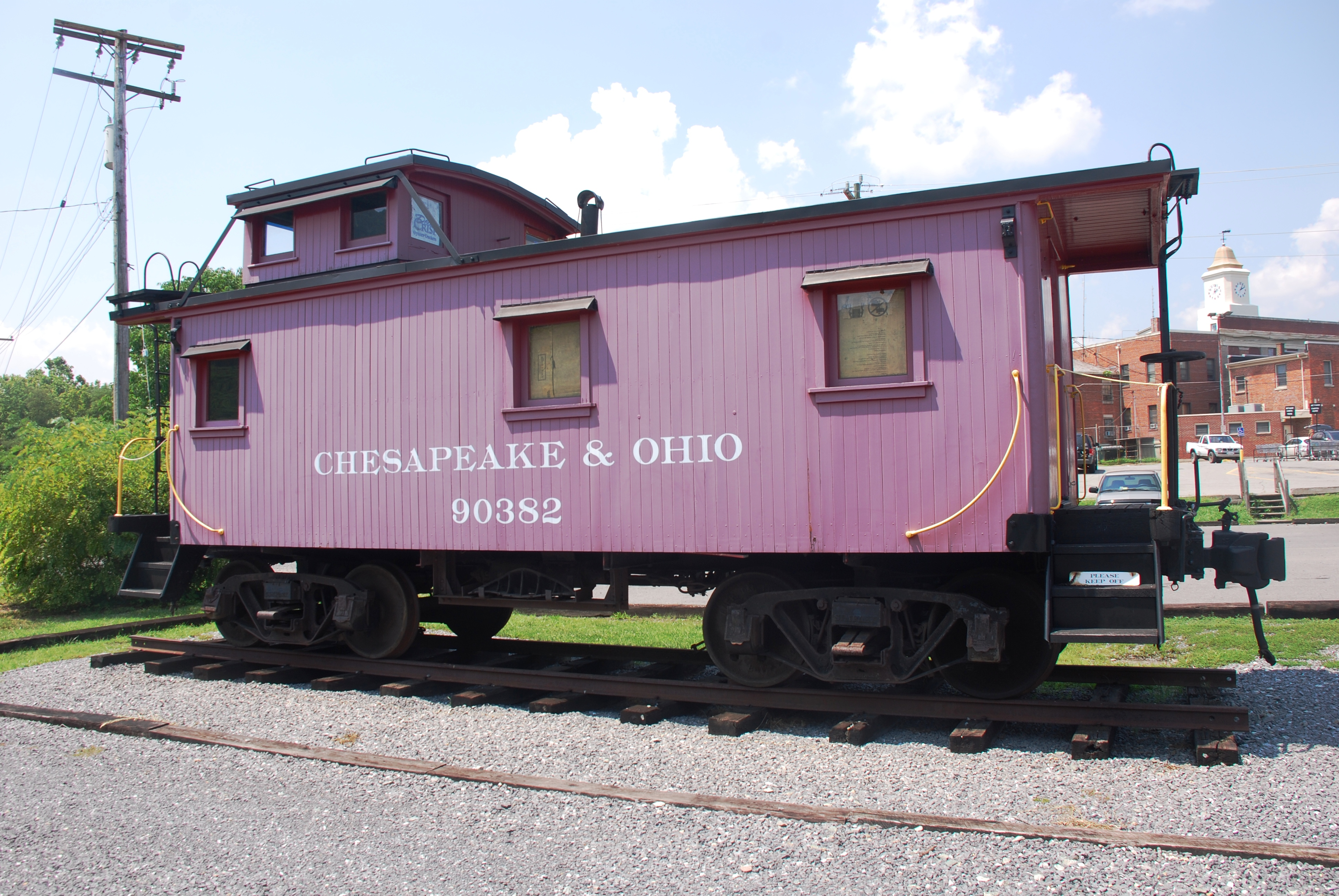 C&O Caboose 90382 at C&O Railway Heritage Center in Clifton Forge, Virginia: exterior